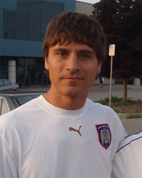 Niki Budalic prior to an Open Canada Cup match in 2007.